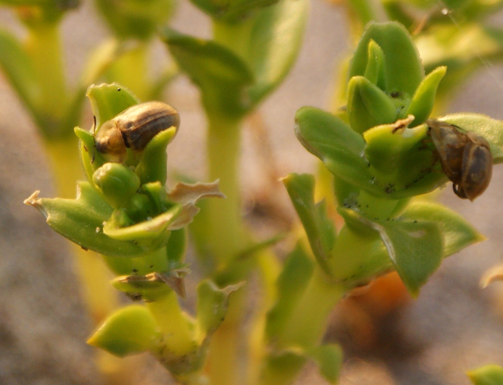 Cassida flaveola on the Honckenya peploides (beach in Międzyzdroje, NW Poland)